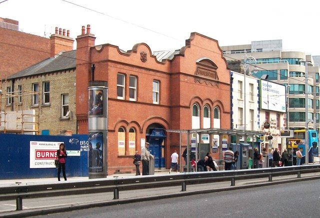 The Dublin City Coroner's Court and site of the City Morgue The Dublin City Morgue was demolished in 1999 and the site is now being redeveloped.